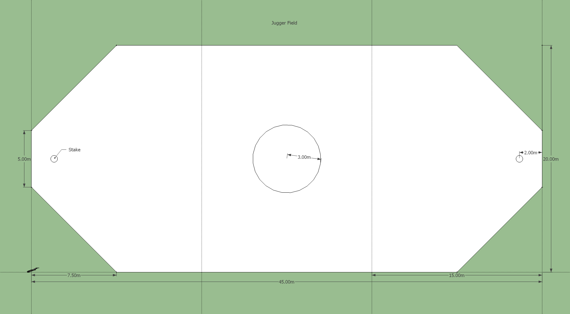 This is a plan layout of a Jugger field according to Australian Jugger Rules. It was drafted in Google Sketchup